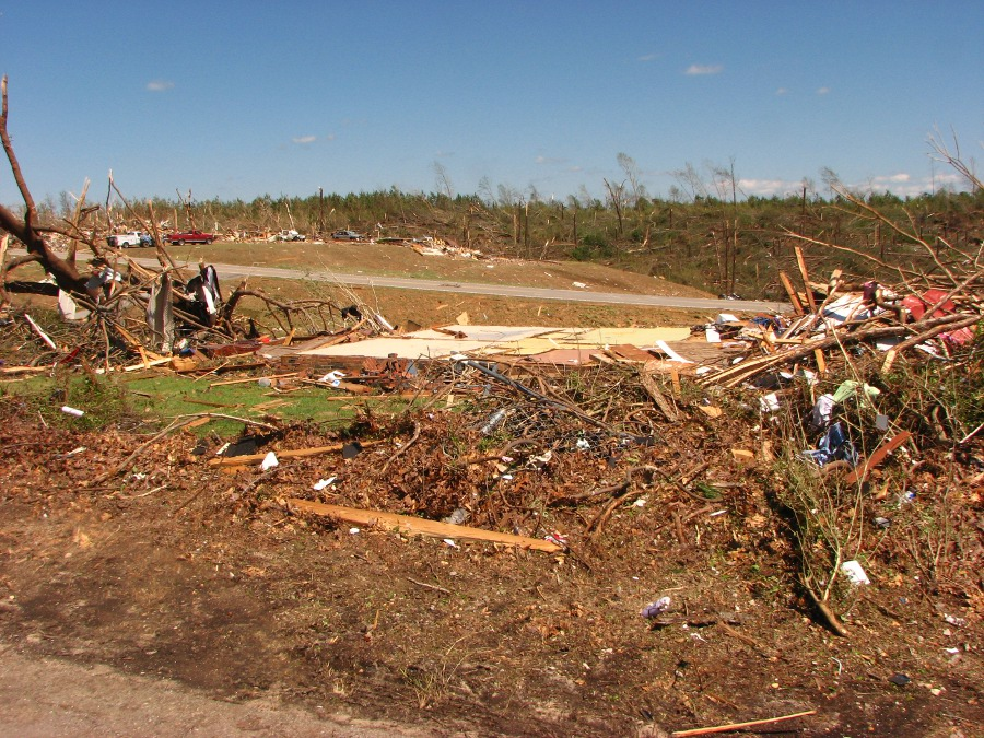 Damage from an EF-5 tornado which struck the town of Phil Campbell, Alabama during the April 27, 2011 tornado outbreak. Photo is taken from Oliver Street, looking east towards the Post Office.